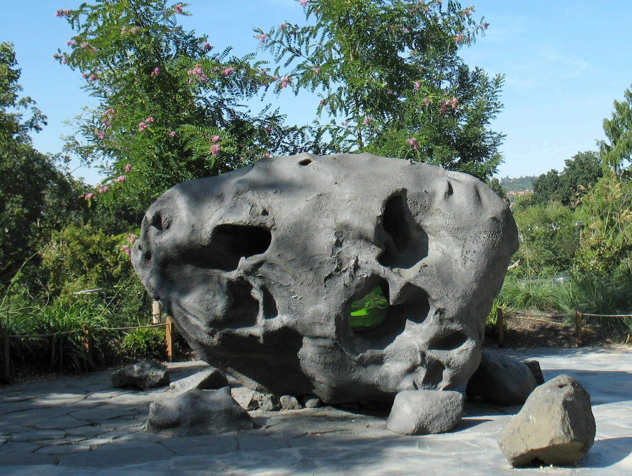 Artwork "e-Bolid" by Jakub Nepraš in Prague Zoo